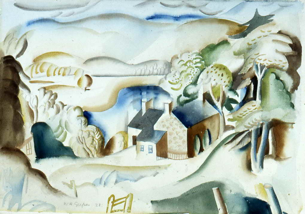 View of the river near Pitlochry. Watercolour and pencil. William Geissler. 1928. Painting in the stylised treatment following the teaching of André Lhote.